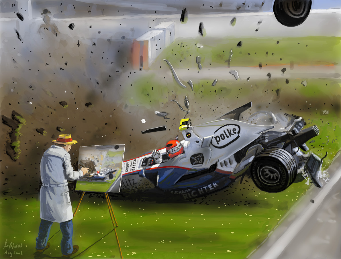 Digital painting with Adobe Photoshop and Wacom Intuos A4 graphic tablet. Painting time: 3 hours. This picture is shown on youTube and other video portals as a timelapsed video. This video takes about 4 minutes. These time lapsed videos of fast painted (digital) picture are called "Speed painting". The idea/concept of the picture is to show a painter, who paints a formula1 crash in real, standing in fornt of the motif in the nature. So he really has to paint it fast - a "speed paint" ;-)